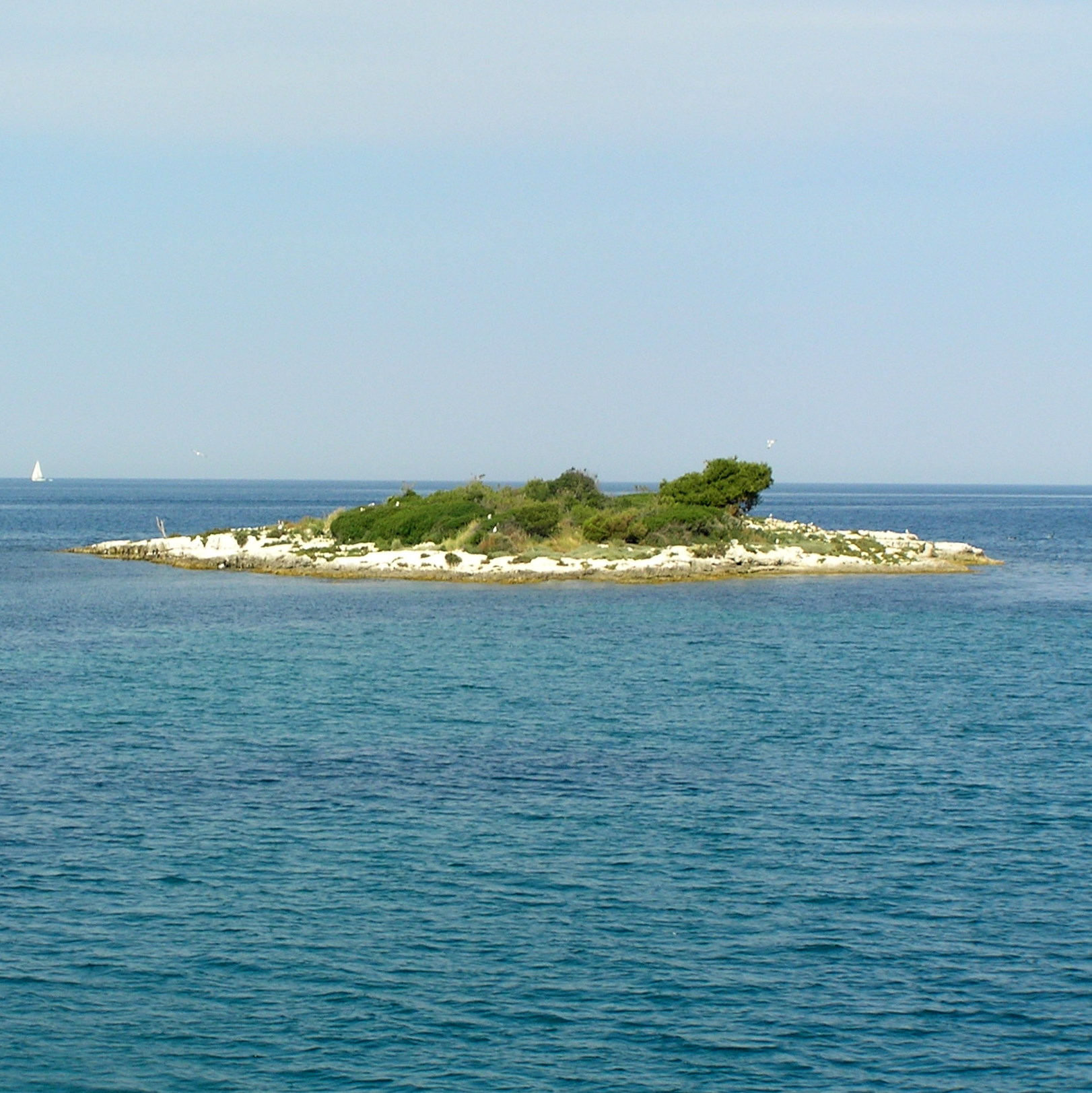 Reef Regata southwest of Poreč, Croatia.